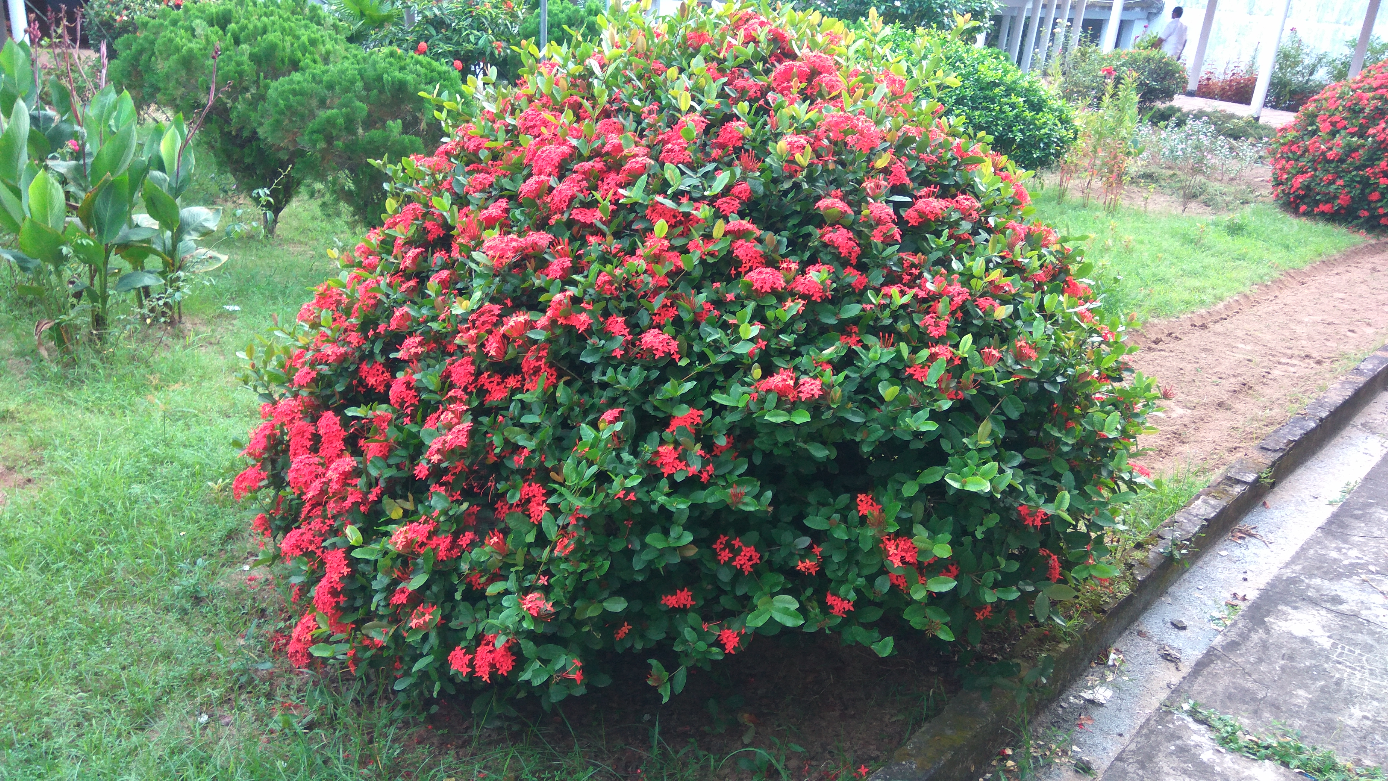 Plant of Ixora coccinea